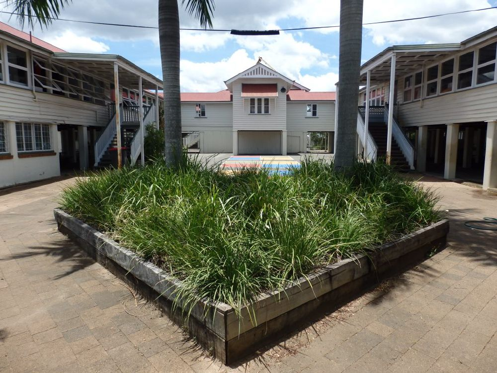 Sectional School Buildings - Block C, centre; Block D, left; and Block E, right; view from west (EHP, 2016)